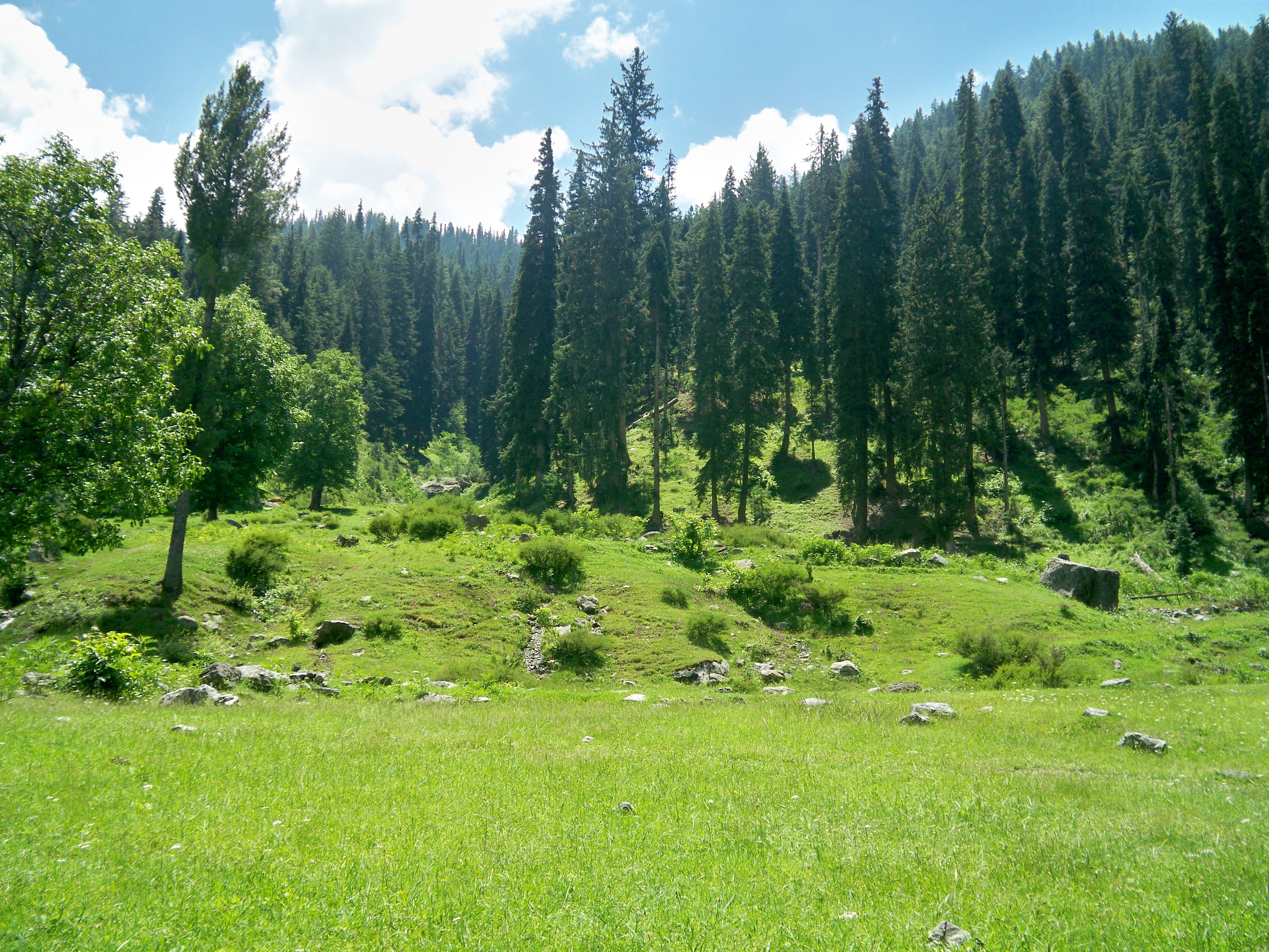 On the way from Utror to (Shahi Bagh) Pari Lake, Swat Valley, Pakistan